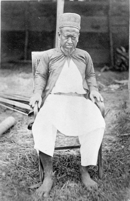 Sultan Achmad Nazaruddin (r. 1858-81) of Djambi (modern spelling Jambi). Picture taken during the Dutch Sumatra Expedition 1877-79.